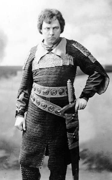 Danish opera singer Erik Schmedes (1868-1931) in Wagner's Tristan und Isolde at the Wiener Staatsoper.